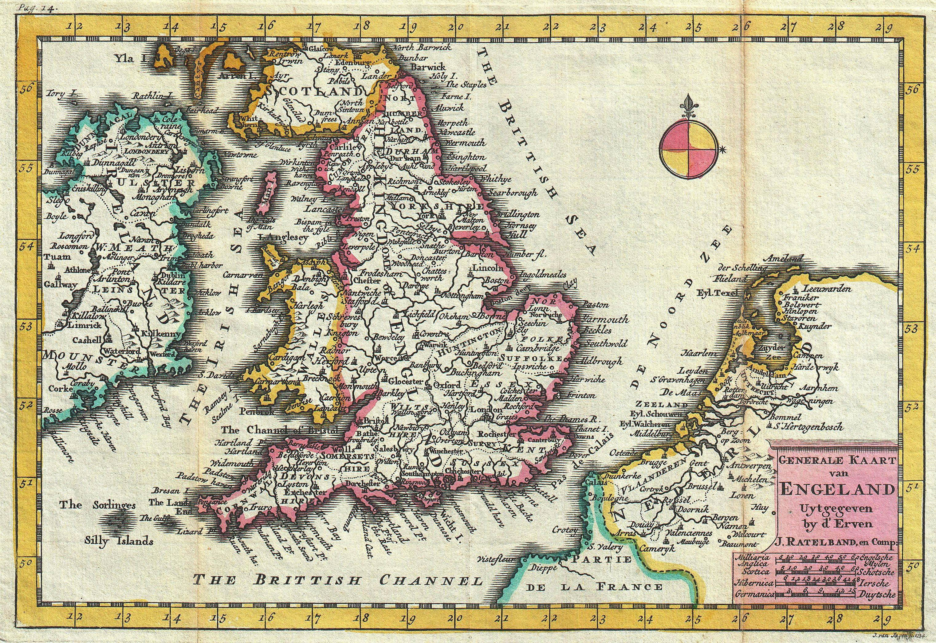 A stunning map of England first drawn by Daniel de la Feuille in 1706. Depicts the entirety of England with parts of Ireland, Scotland and the Netherlands. Dutch language title in lower right quadrant. This is Paul de la Feuille’s 1747 reissue of his father Daniel’s 1706 map. The De La Feuille name has been removed from the map and replaced with Ratelband’s. Note in the bottom right quadrant dates this engraving to 1734 and attributes it to J. van Jagen, a prominent Dutch engraver. It was most likely Jagen who re-engraved and updated De La Feuille’s map per Ratelband’s instruction. Prepared for issue as plate no. 16 in J. Ratelband’s 1747 Geographisch-Toneel .